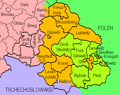 Upper Silesia plebiscite 1921, district majorities: Lined borders = the German border of 1918 and districts of upper Silesia; dotted = Districts of lower Silesia; lilac = Czechoslovakia inclusive territories received from Germany without plebiscite; green = Poland inclusive territories received from Germany without plebiscite; district majority for Poland; orange = district majority for Germany